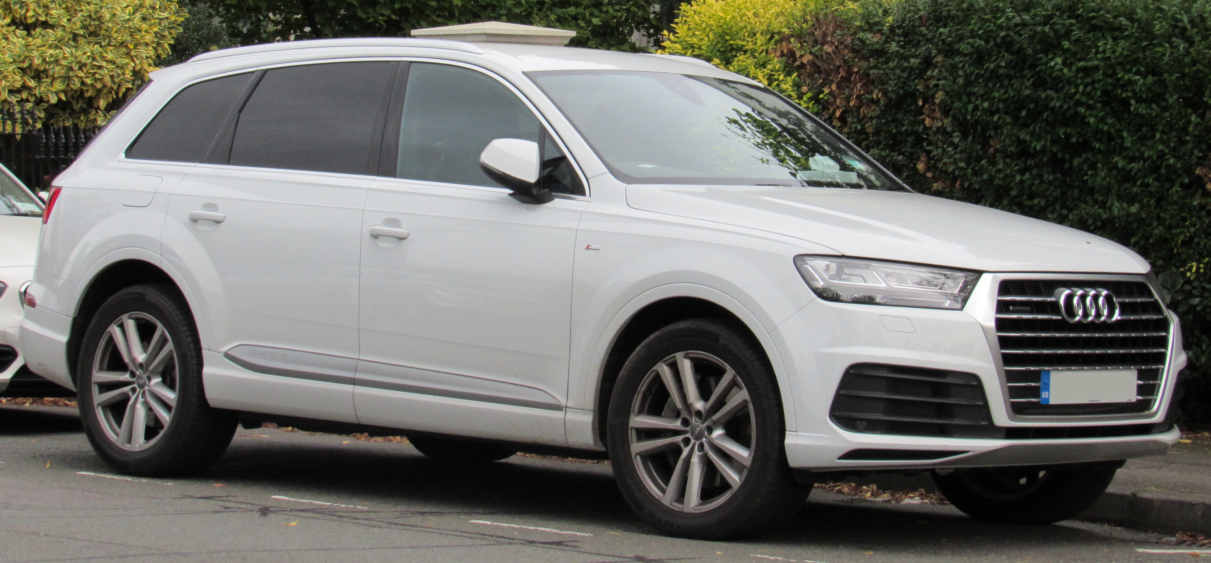 2017 Audi Q7 S Line Quattro 3.0 Front Taken in Leamington Spa